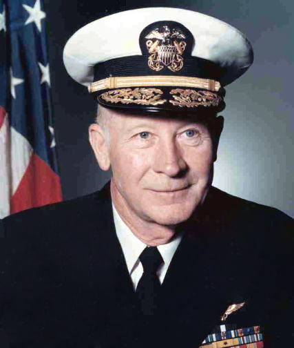 This picture is of 4 star Vice Admiral Jackson Dominick Arnold, it is a retirement photo. It was taken in 1971, the day before he retired from the UInited States Navy. It should be in the Jackson D. Arnold article. It came from Jackson Arnold's house.